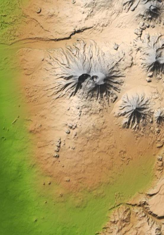 Topographic map of Tolbachik, Kamchatka peninsula, Russia